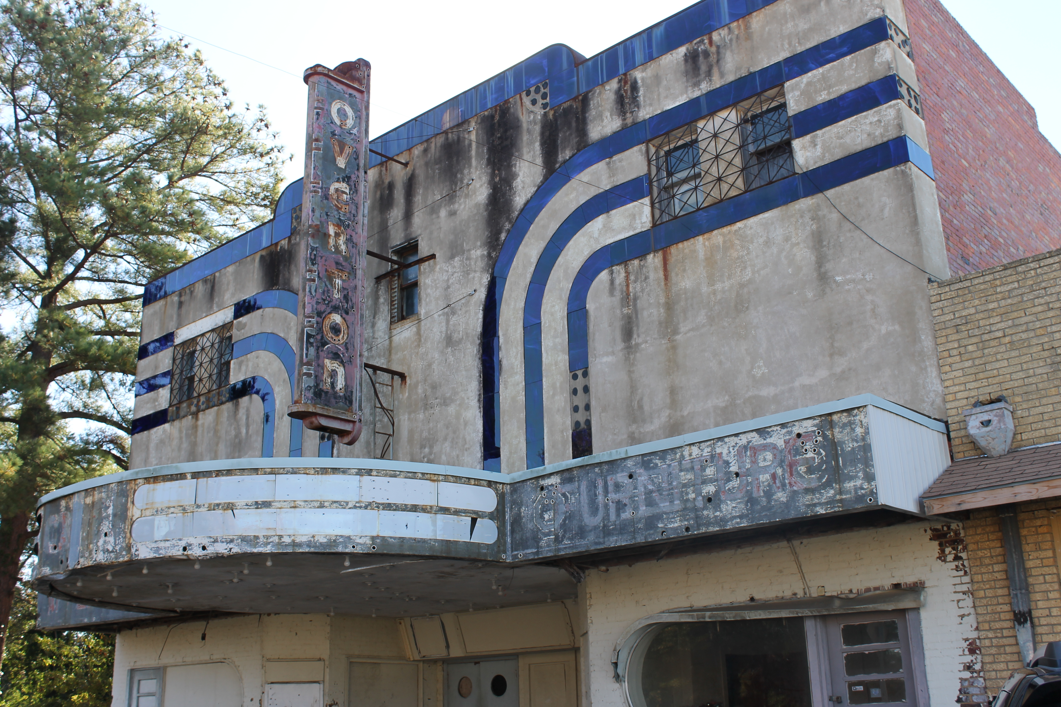 former Overton Theater in Overton, TX